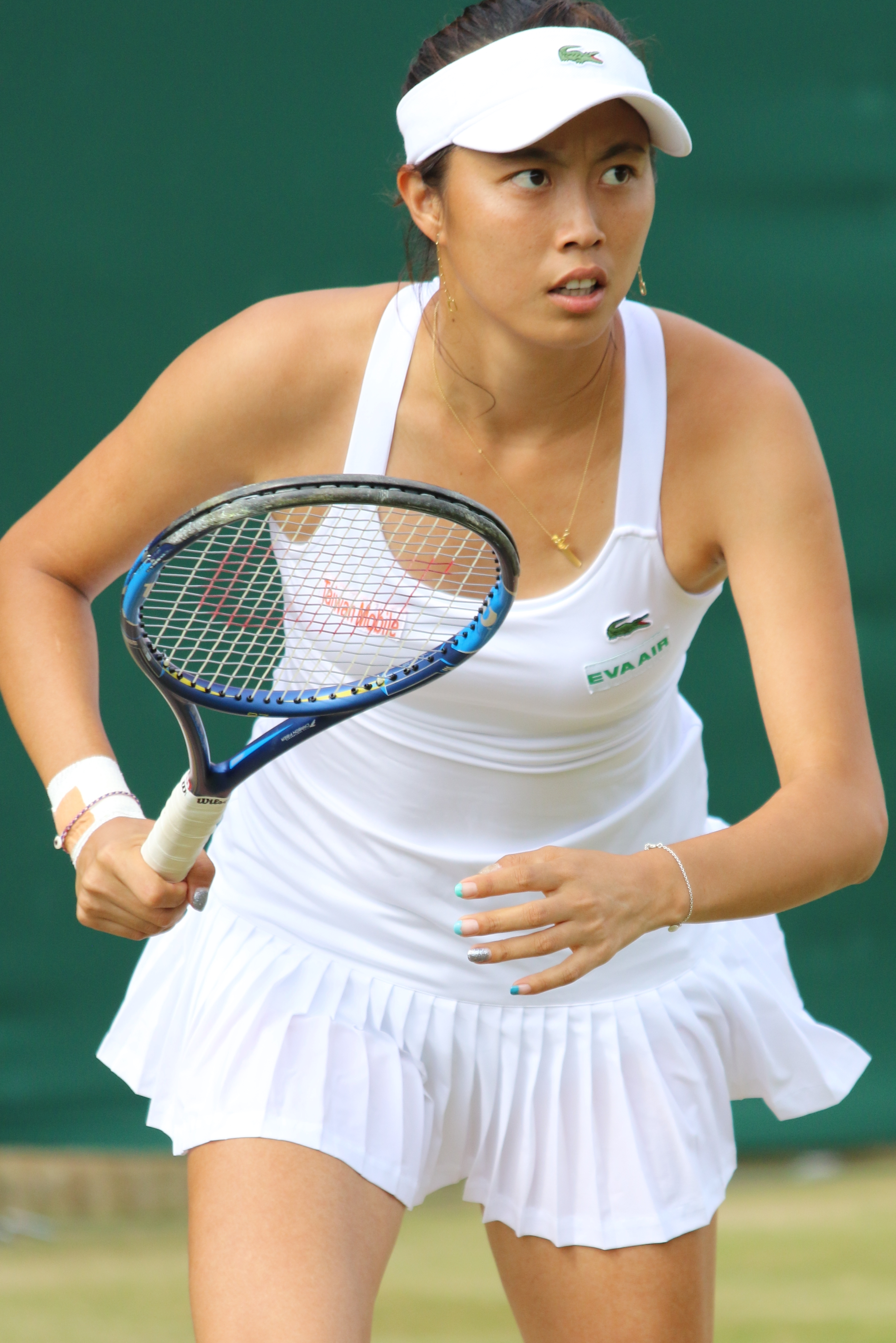 Chan HC. WM17 (1)